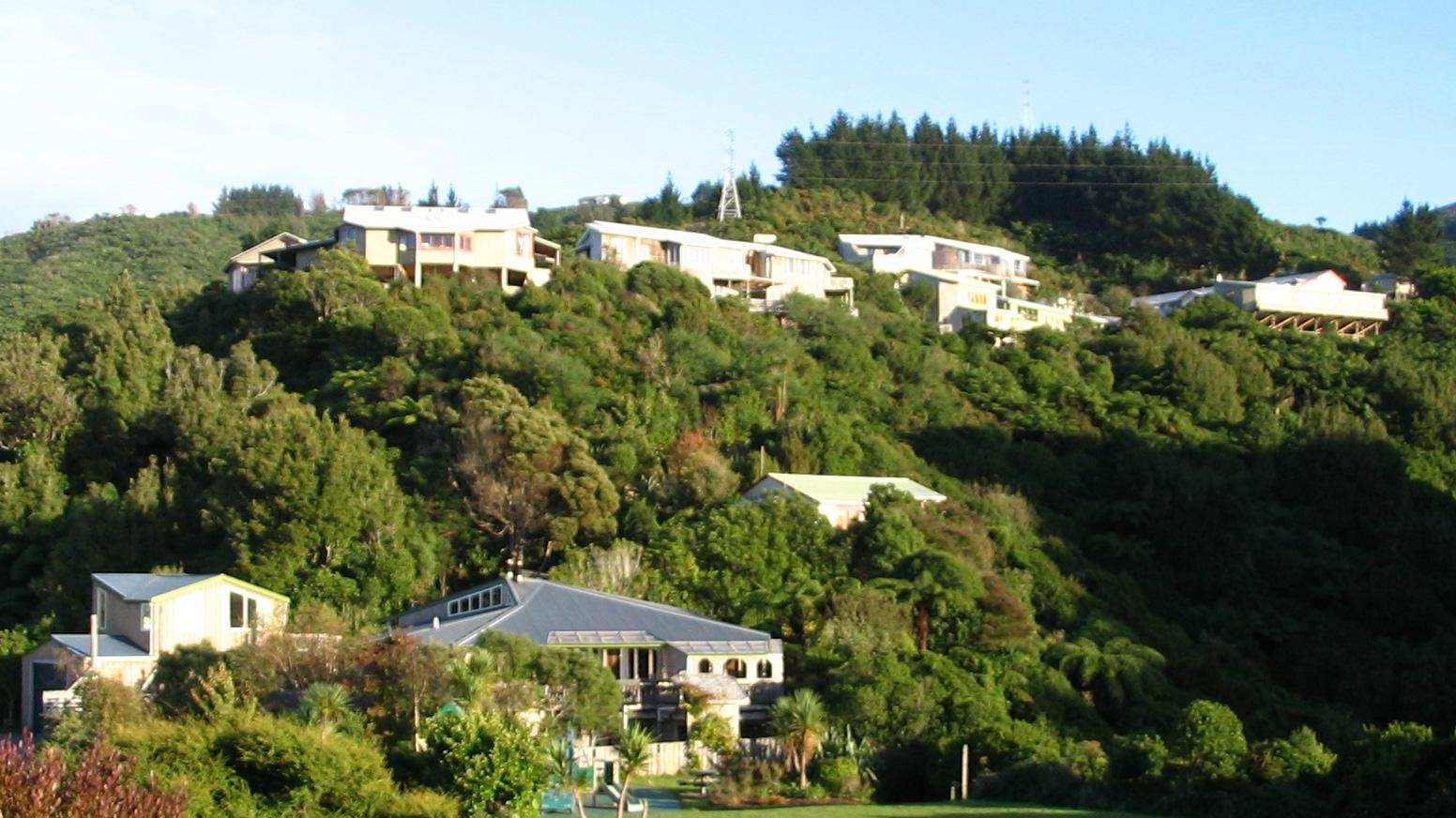 Photo of Raphael House Rudolf Steiner School in Belmont, Lower Hutt from the road that runs below